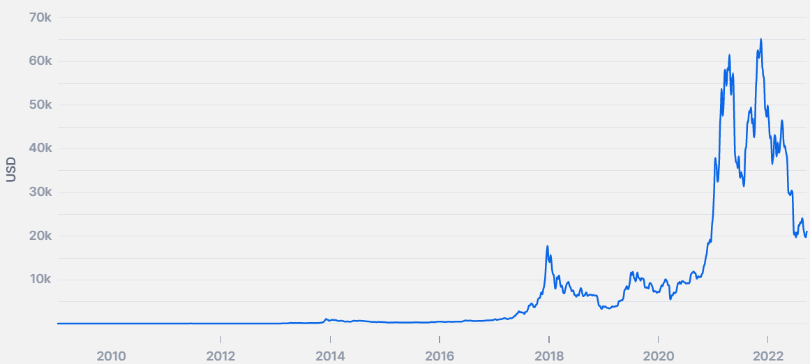 Chart : bitcoin price in USD (Since January 2009). Source